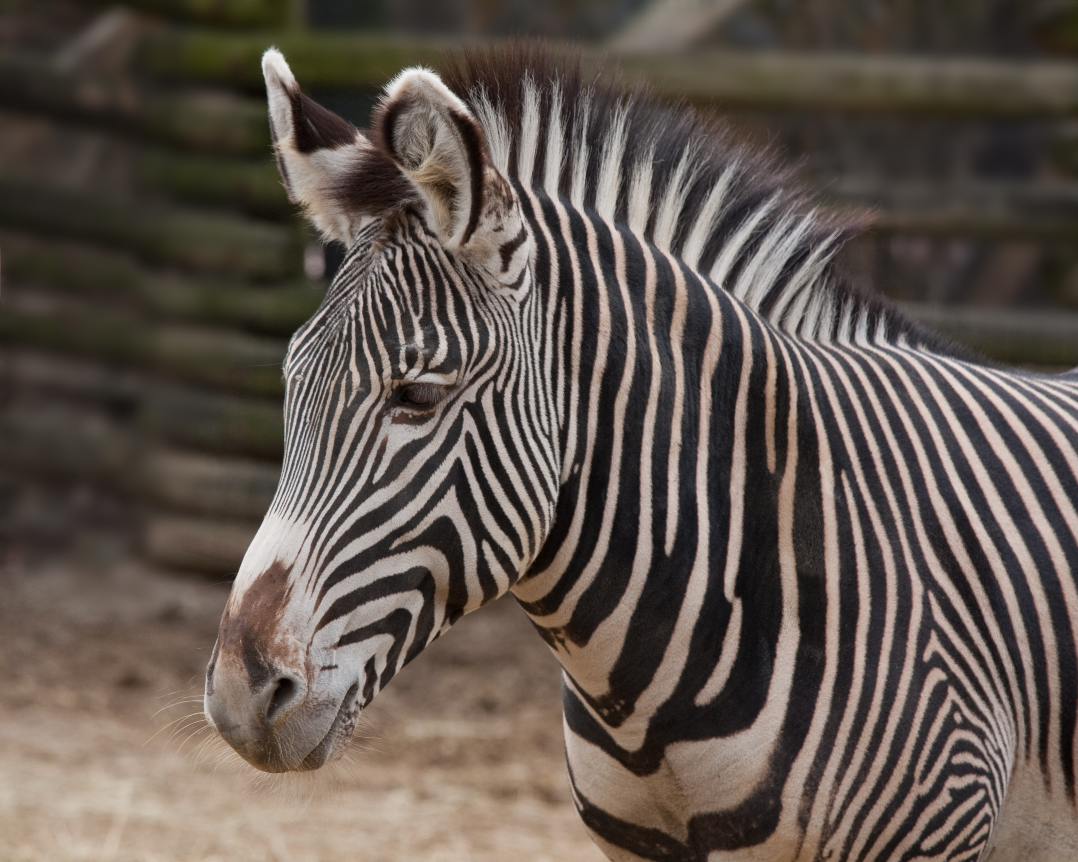 Grevey's zebra in captivity at the Cincinnati Zoo.